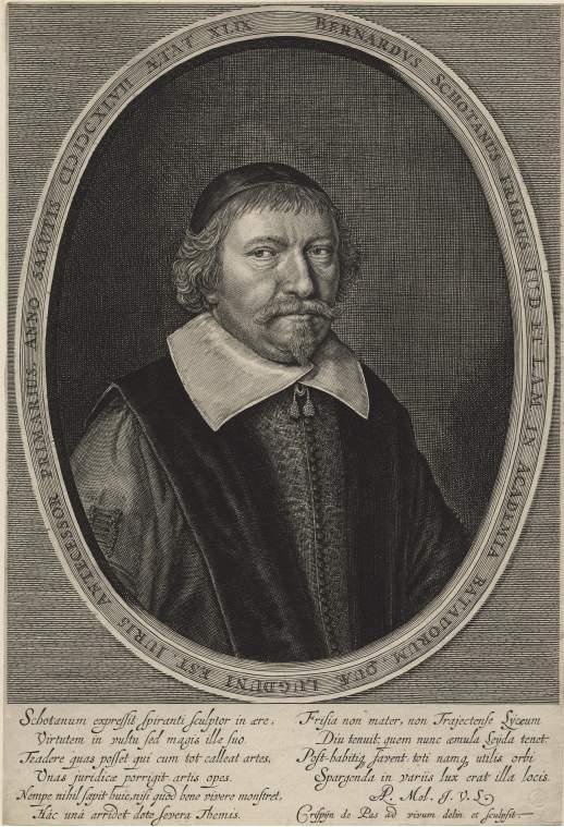 A portrait of Bernardus Schotanus, professor in law and mathematics from the Dutch Republic.